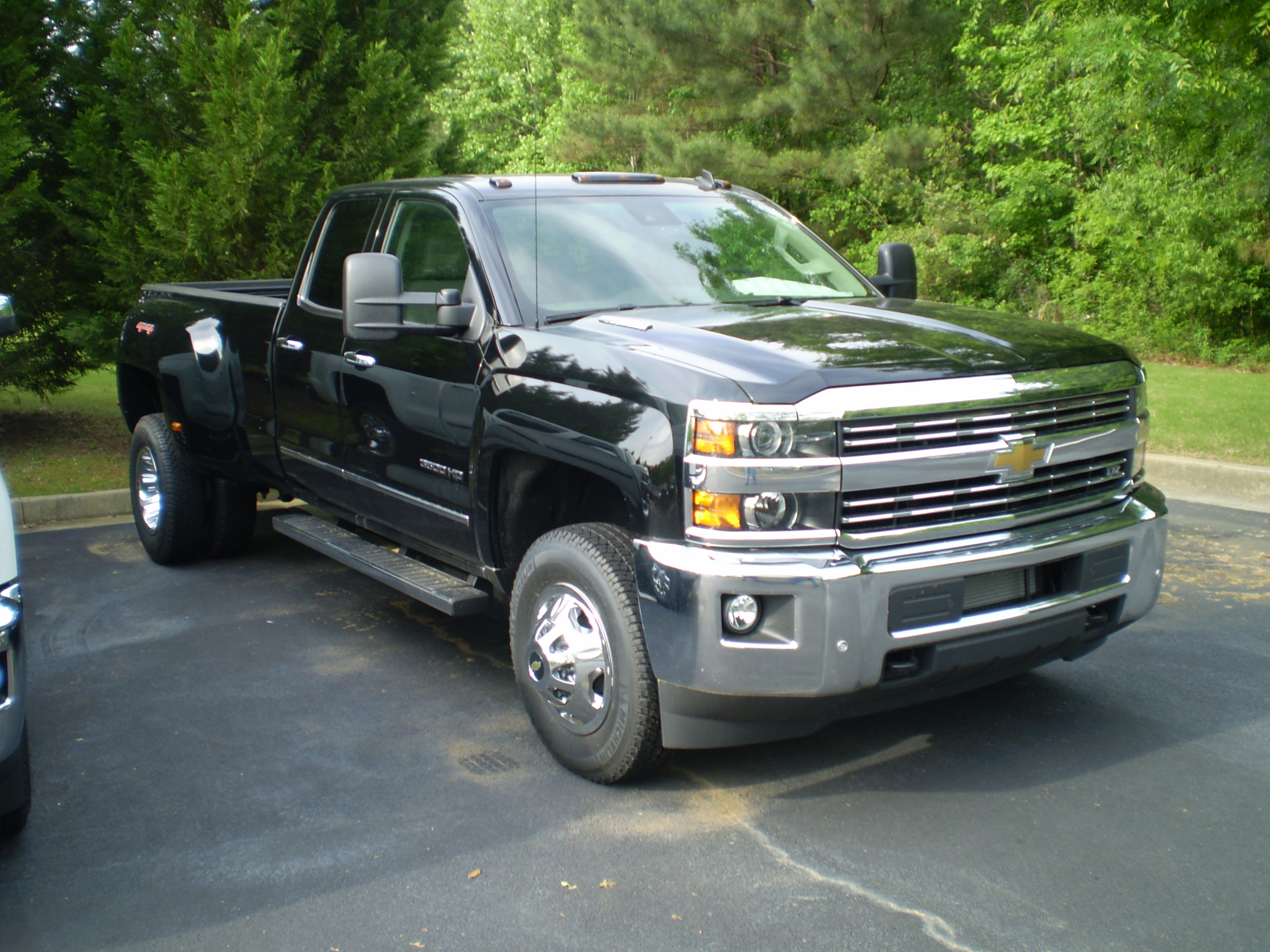 2015 Chevrolet Silverado LTZ 3500 HD Double Cab/Long Bed 4x4 (Observe) Final Assembly Location: Fort Wayne Assembly, Roanoke, Indiana, USA Verified by VIN information.